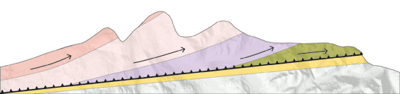 Cross-section diagram of the rocks at Torneträsk in Sweden.